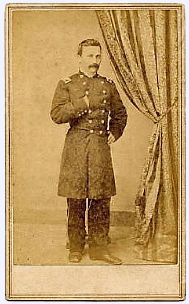 Civil War photograph of Colonel William S. Hillyer, 1861